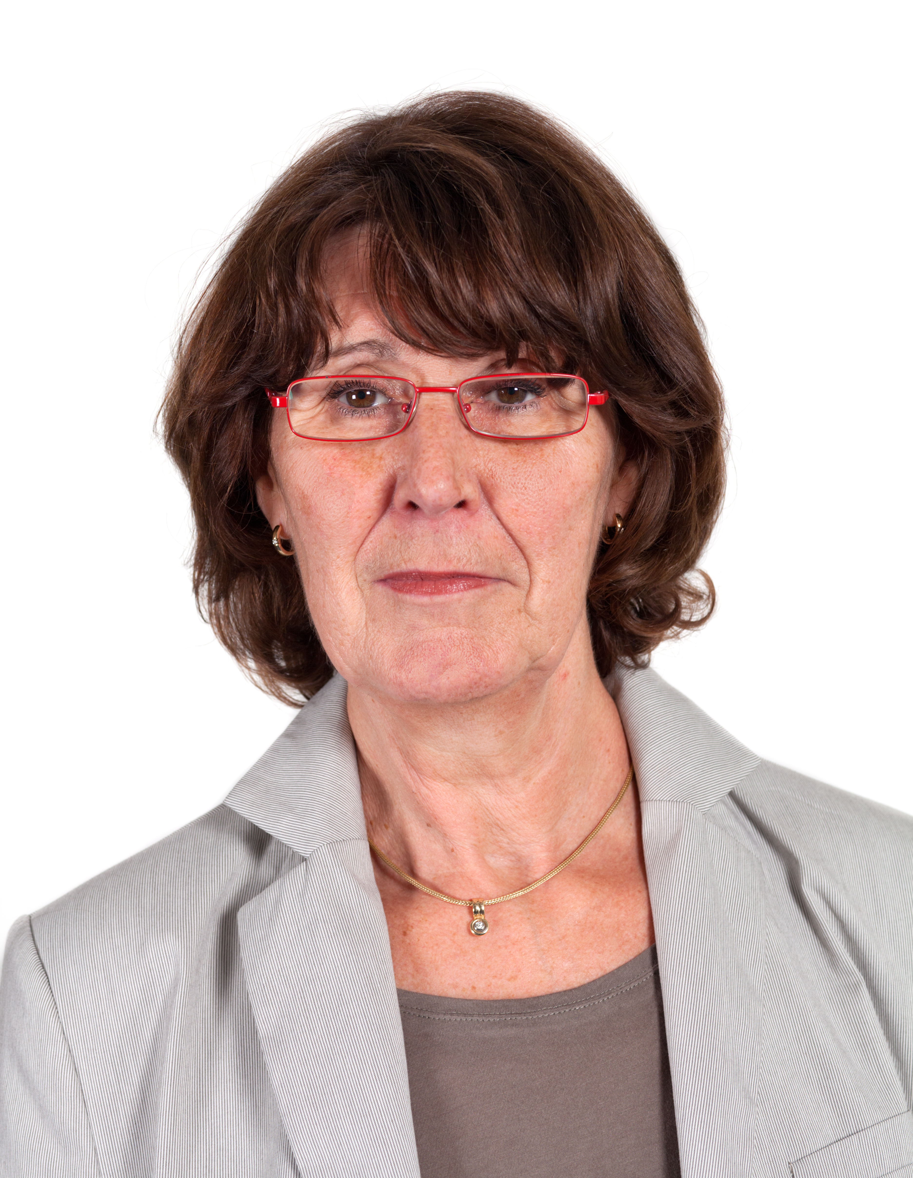 Karin Timmermann, member of the Social Democratic Party of Germany.